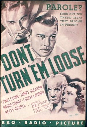 Poster for the 1936 film, Don't Turn 'Em Loose Other information The item has no copyright markings.